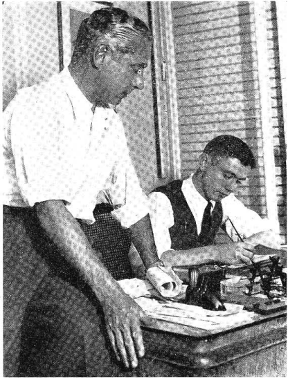 José Luis Salinas teaching his son Alberto about drawing.